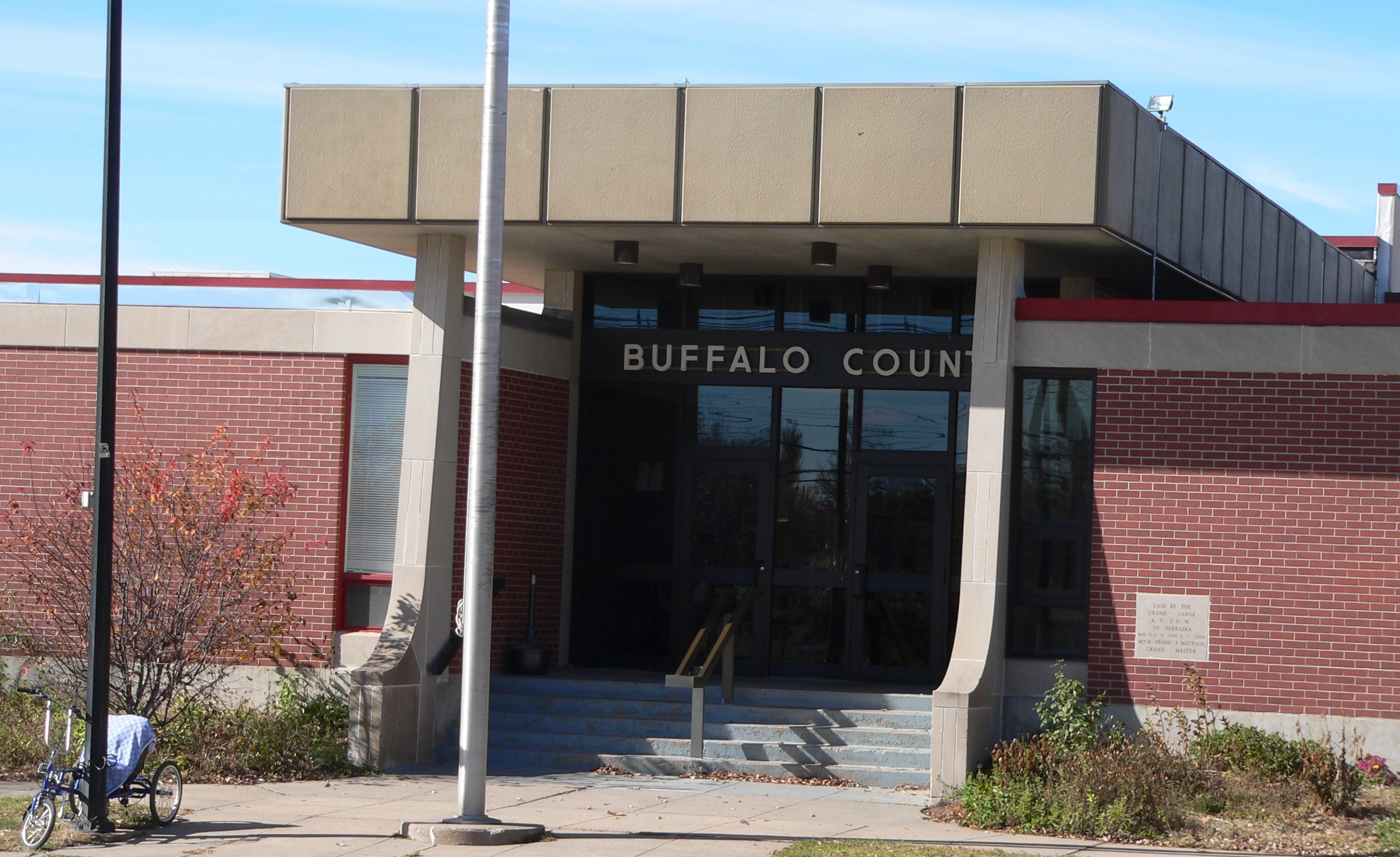 Buffalo County Courthouse, located at 1512 Central Ave in Kearney, Nebraska. The building was constructed in 1974.